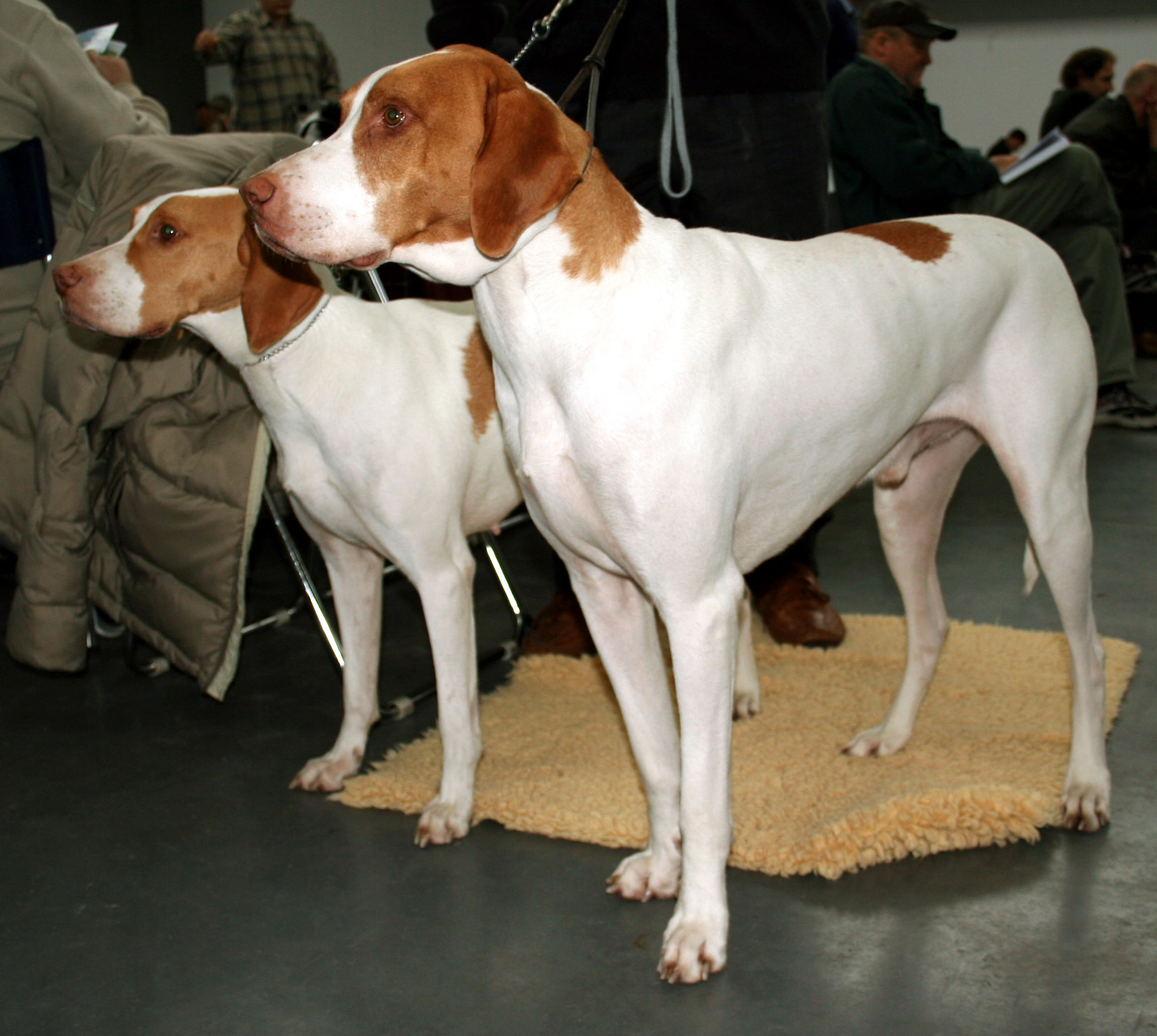 Braque Saint-Germain (FCI No. 115)